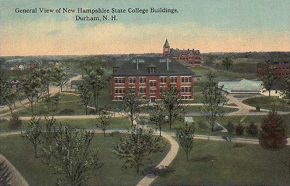 General View of New Hampshire State College Buildings, Durham, NH